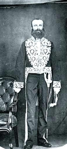 Dirk de Graeff van Polsbroek (1833-1916) Dutch Consul General and Political Agent in Japan